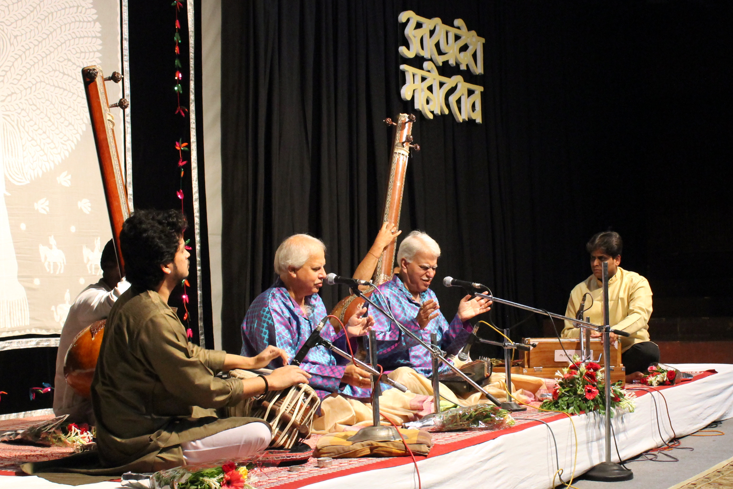 Rajan Sajan Mishra Performing at Bharat_Bhavan Bhopal in 13 July 2015 in a Program: Uttar Pradesh Mahotsav